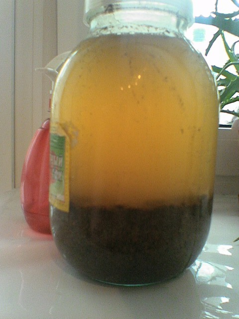 Kvass being fermented in a jar